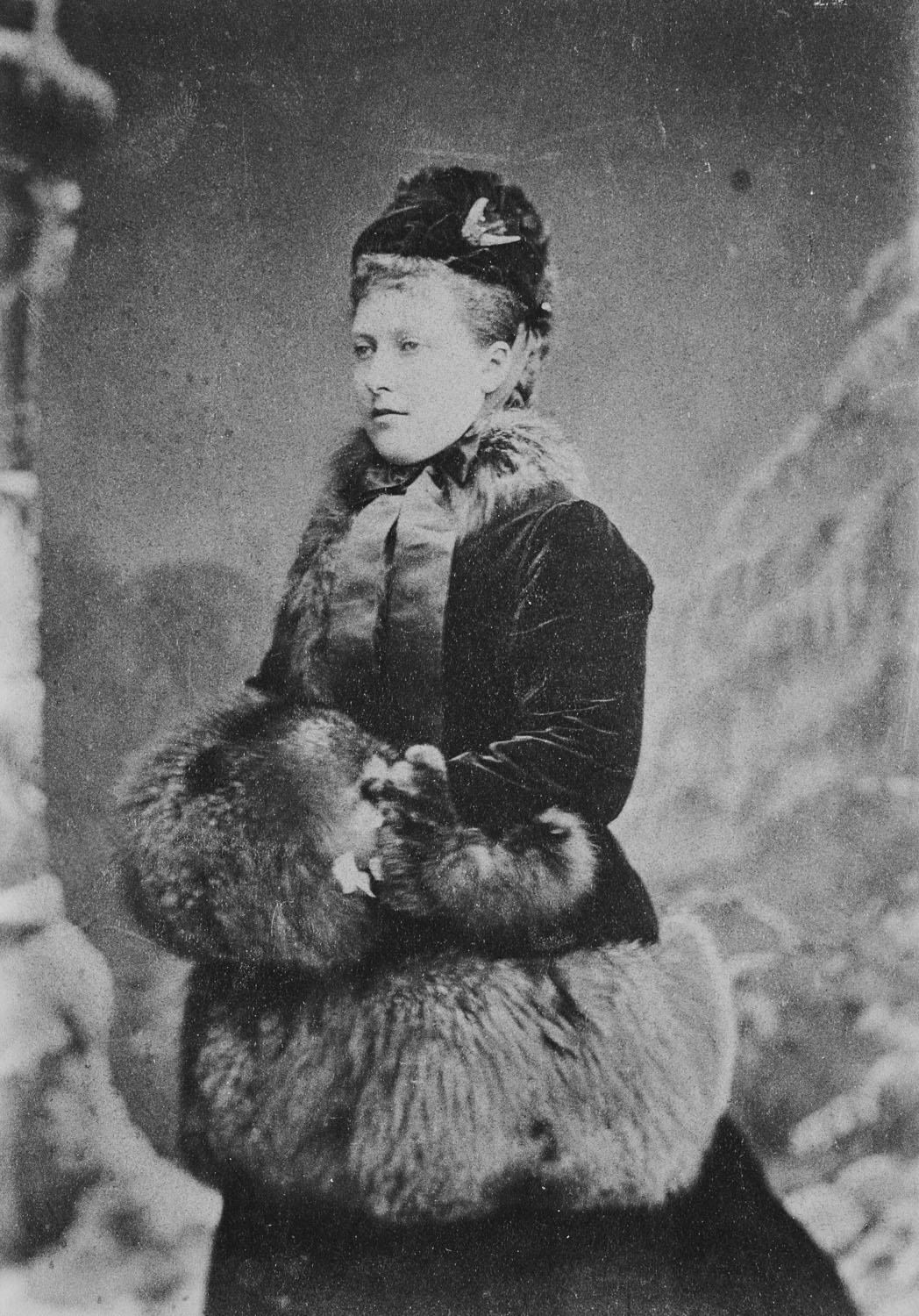 The Princess Helena, Princess Christian of Schleswig-Holstein